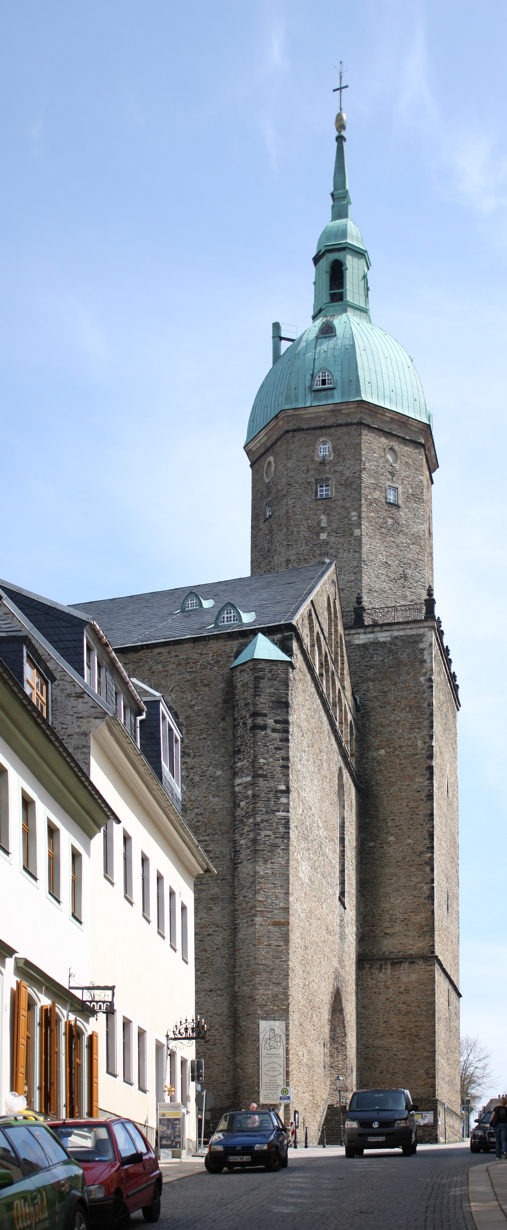 St. Annen Annaberg, view from Große Kirchgasse